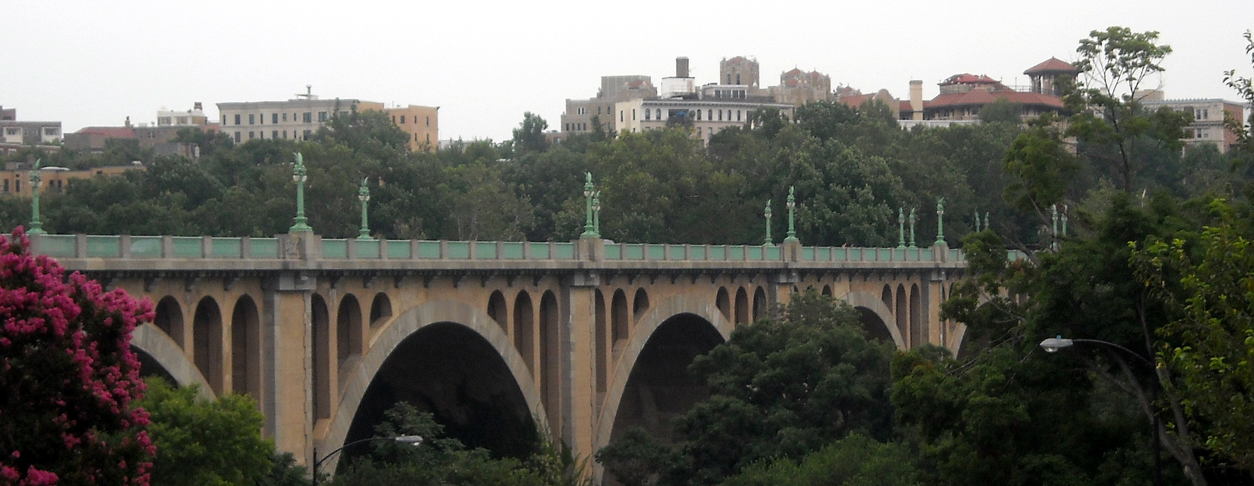 The Taft Bridge which crosses Rock Creek divides the Washington, D.C. neighborhoods of Kalorama and Woodley Park. The bridge is listed on the National Register of Historic Places. Kalorama is in the background.